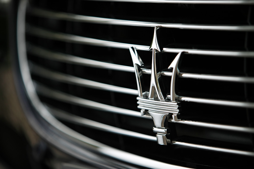 Trident of '07 Maserati Quattroporte, Italian luxury sport car